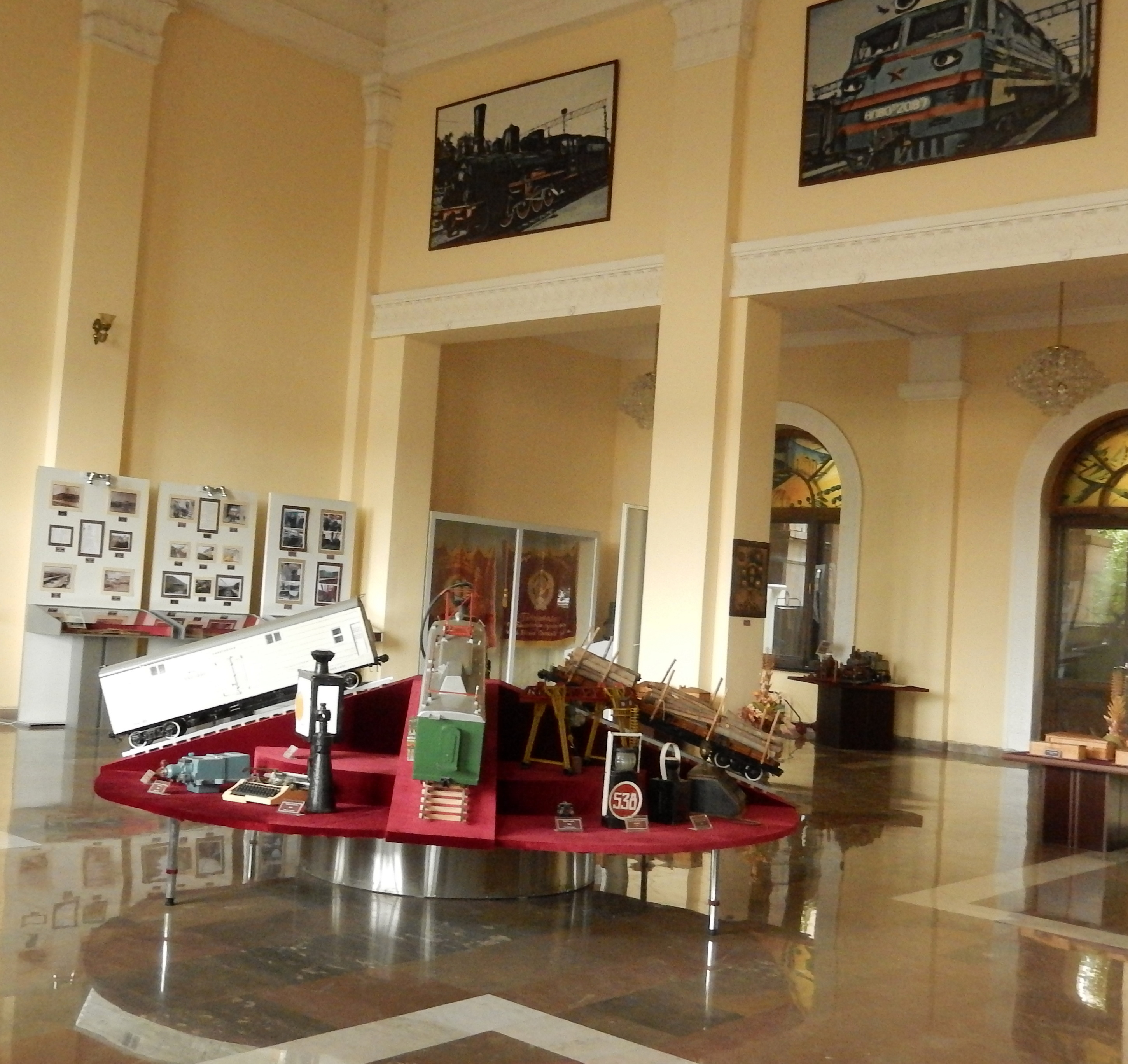 Հայաստանի երկաթուղու թանգարան